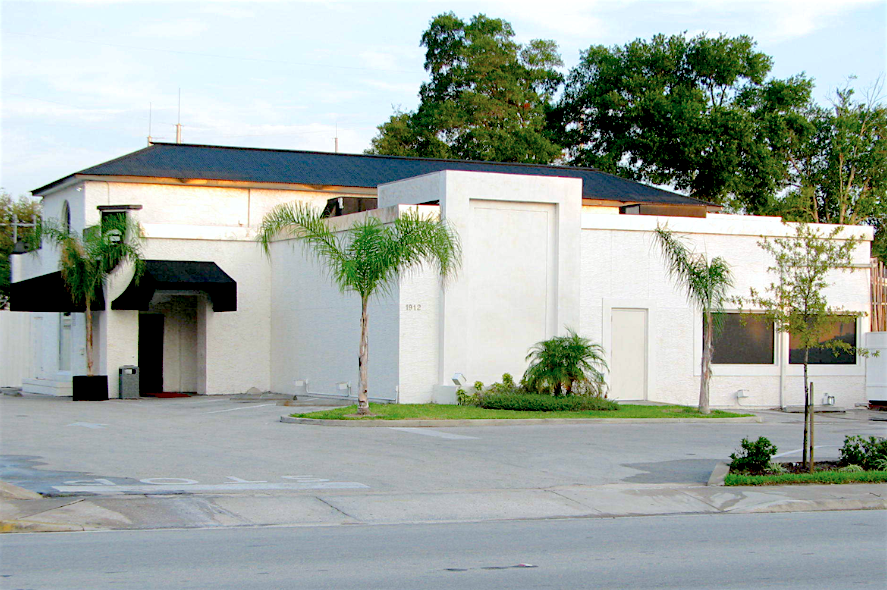 Retrieved from Florida Orange County Property Appraiser Rick Singh via